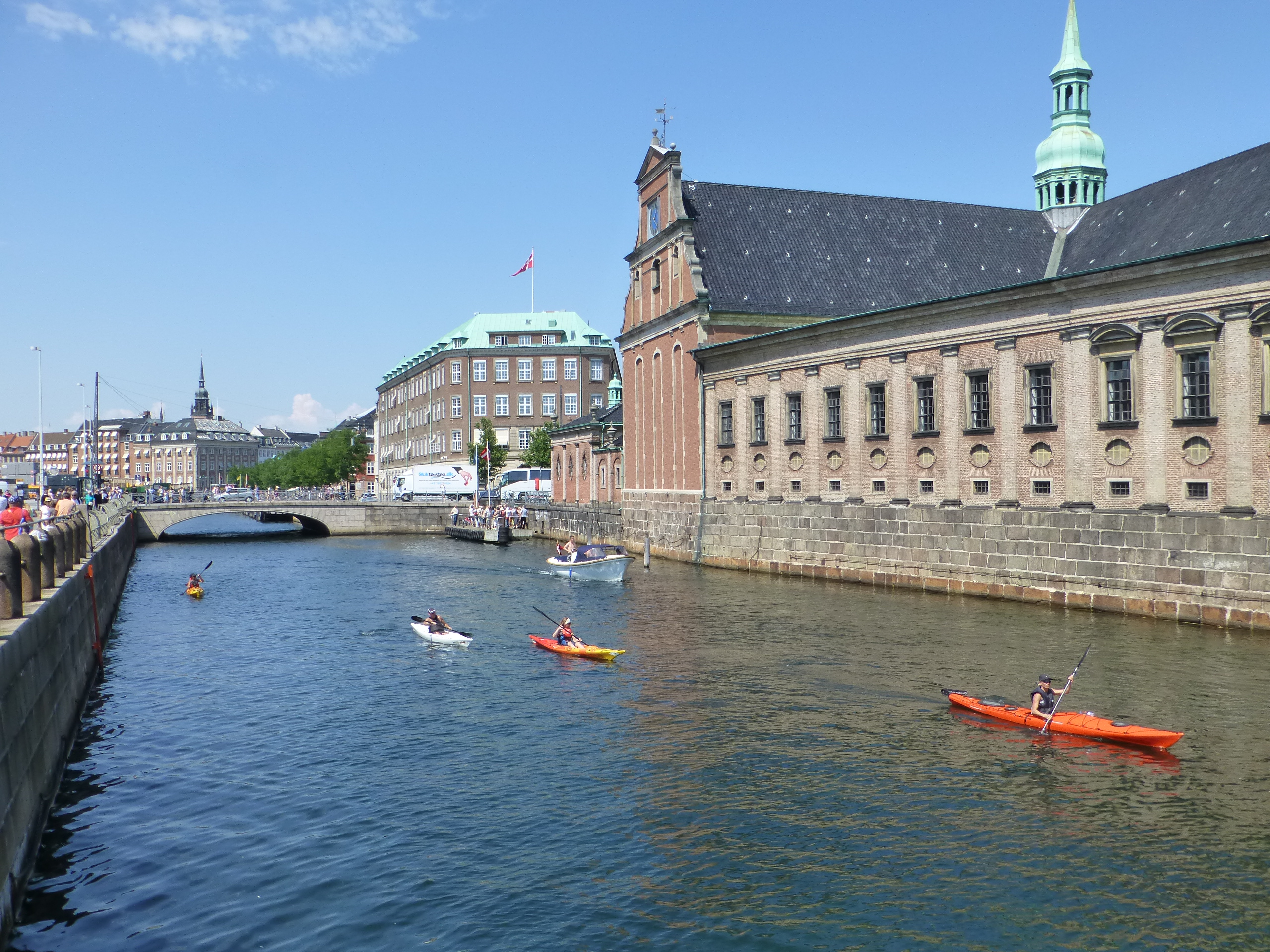 A part of Slotsholmskanalen known as Børsgraven in Copenhagen.